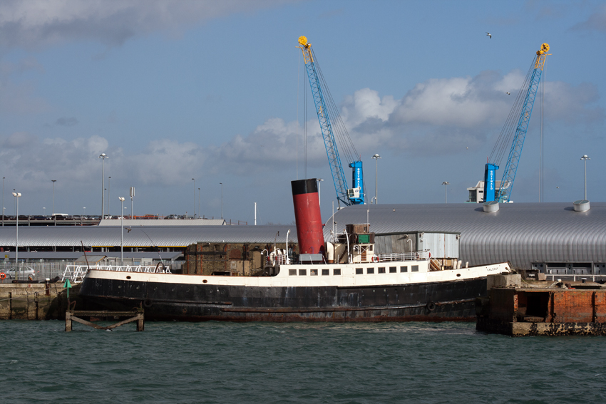 Preserved tug Calshot moored at Southampton. Other names: Galway Bay. Information about Calshot (ship) may be found at IMO 5058155.A ship can change name and flag state through time, but the IMO number remains the same through the hull's entire lifetime. As a result, it can be useful to identify a ship by using the IMO number.